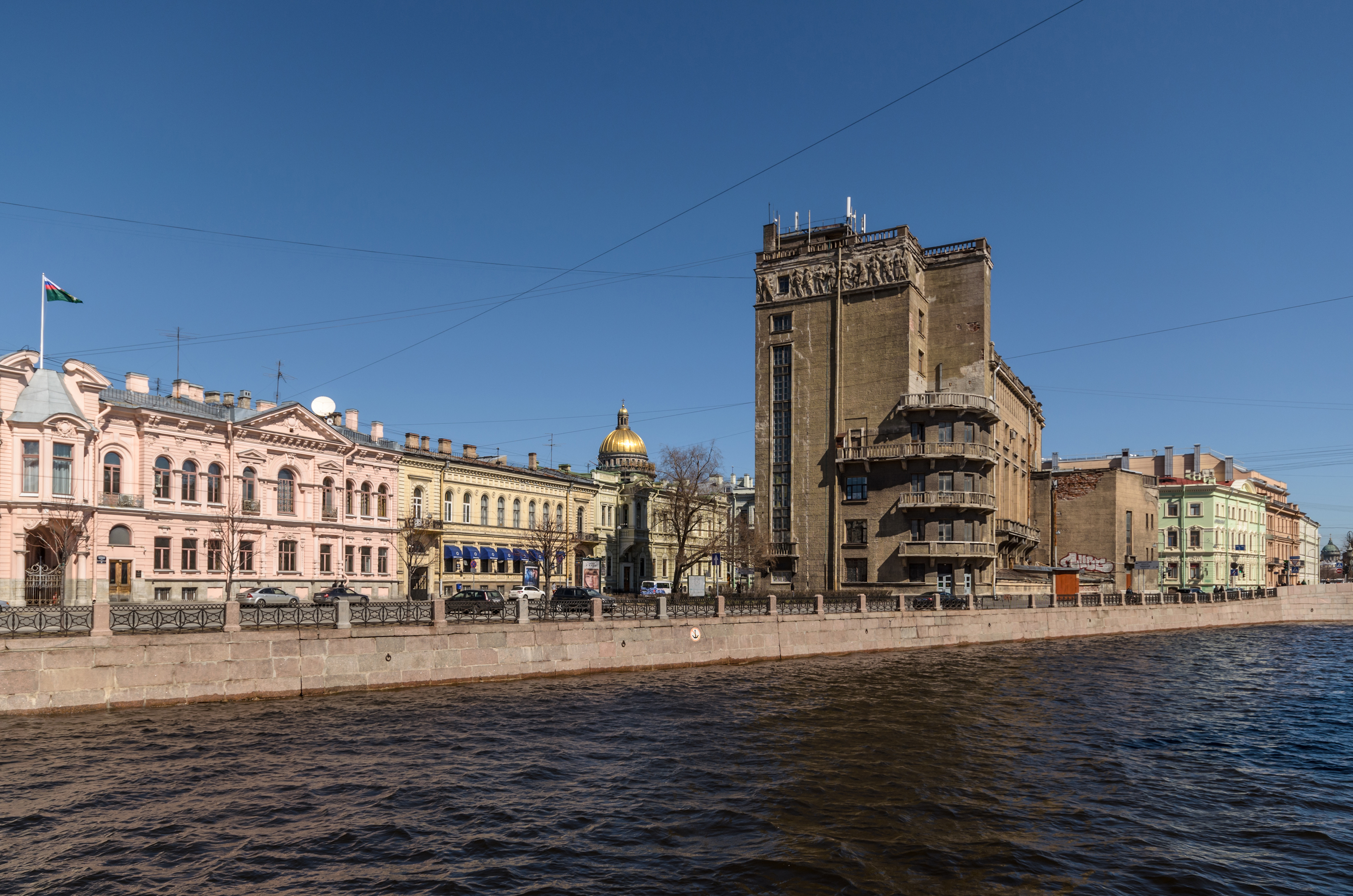 Moyka River Embankment in Saint Petersburg